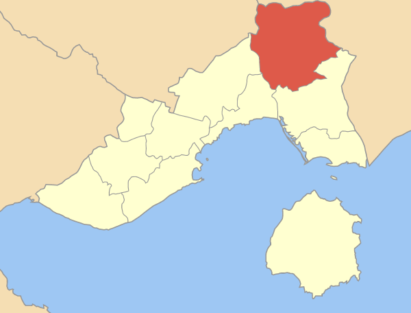 Locator map of Orino municipality (Δήμος Ορεινού) in Kavala prefecture (Νομός Καβάλας) in Greece.